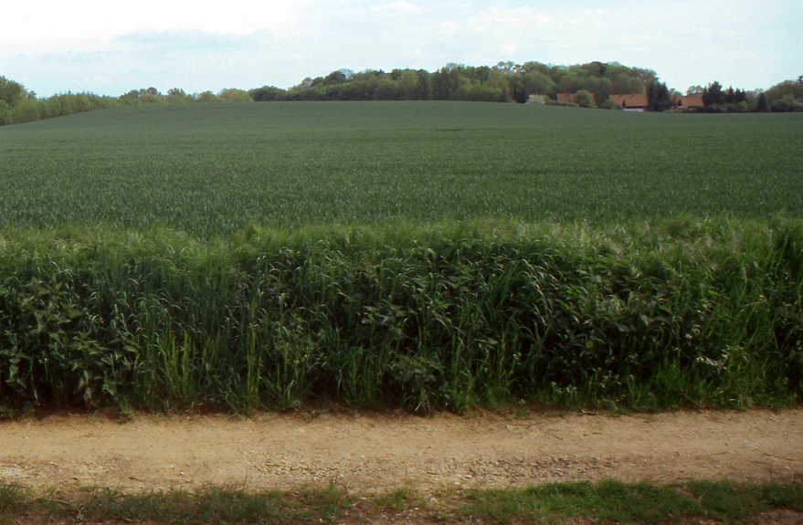 Calenberg ist a hill in the south of the town Pattensen in Lower Saxony in the north of Germany. On the top of the hill has been the castle Calenberg.